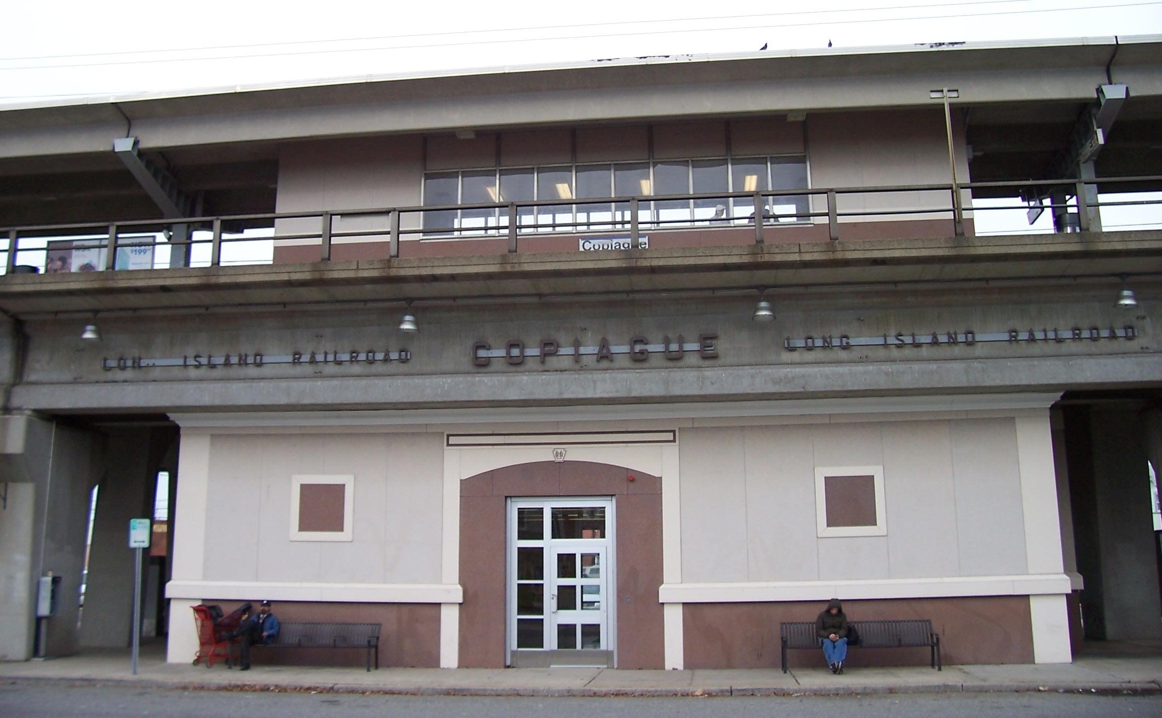 LIRR Copiague station